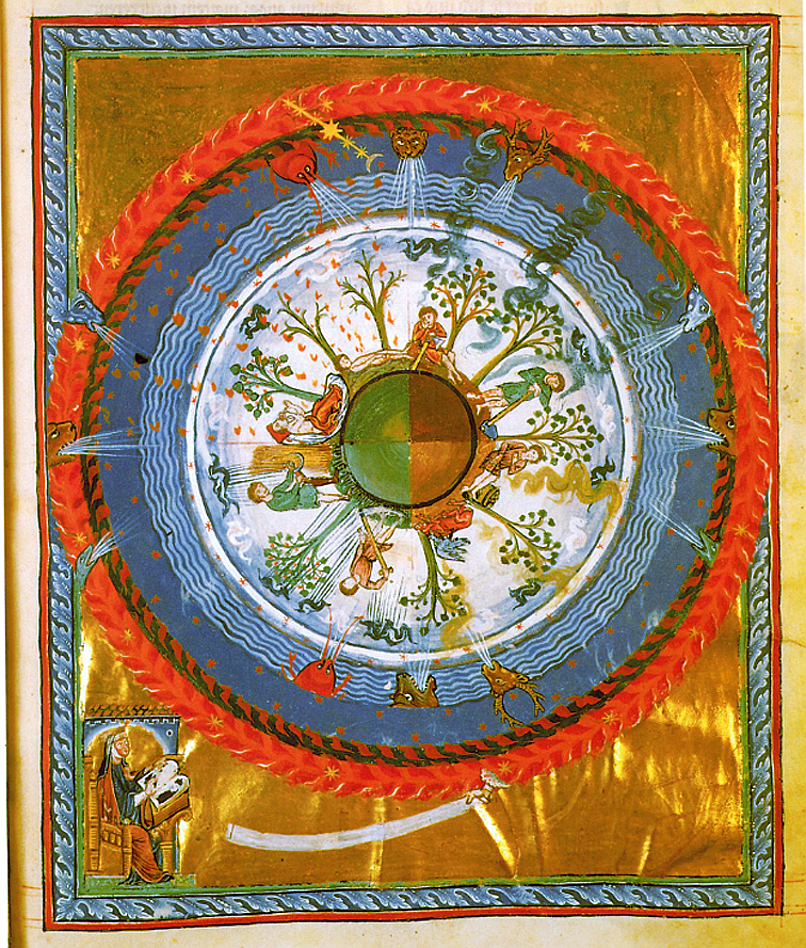 Medieval depiction of a spherical earth with different seasons at the same time (from the book "Liber Divinorum Operum").